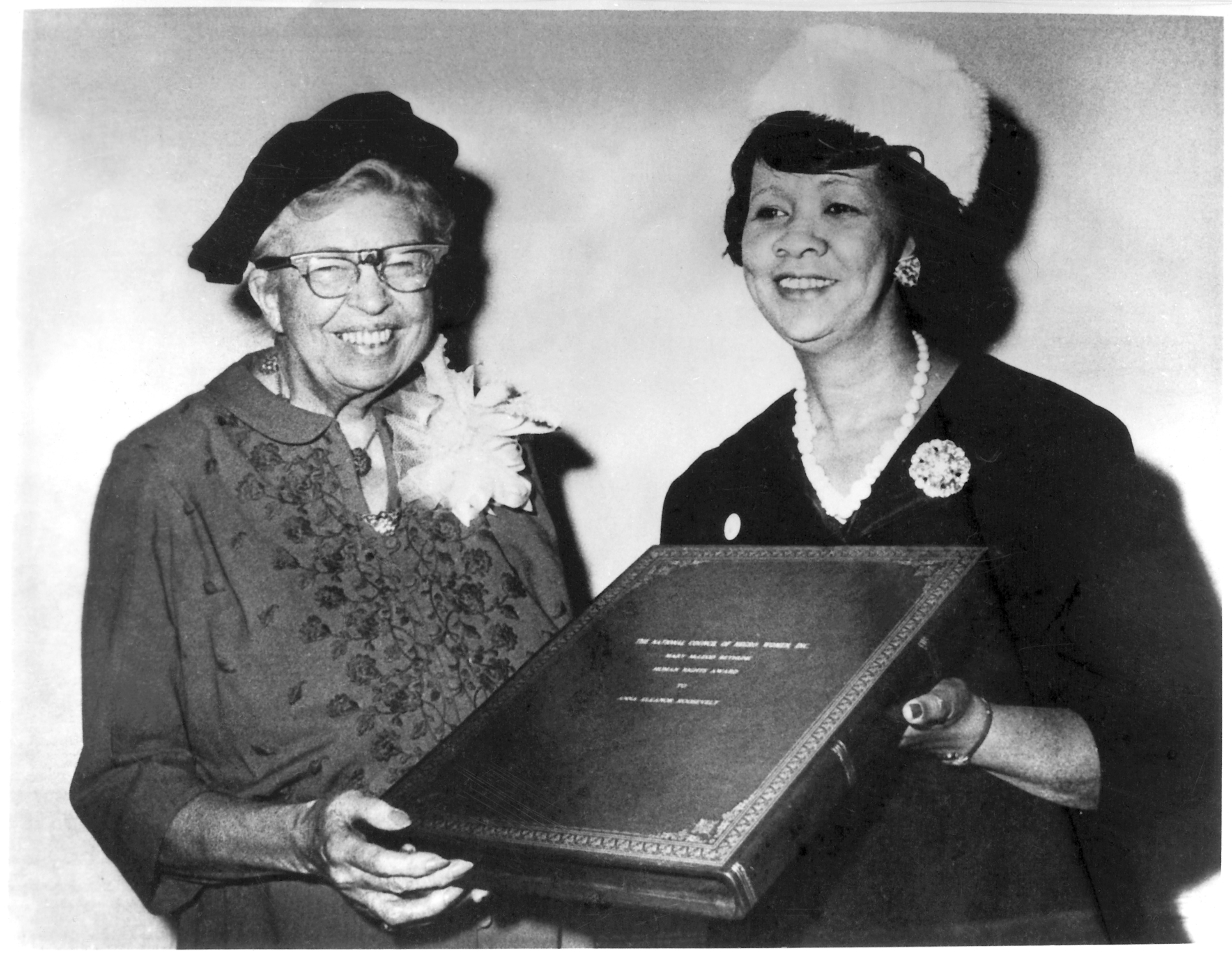 Eleanor Roosevelt receiving the Mary McLeod Bethune human rights award from Dorothy Height, president of the National Council of Negro Women at the council's silver anniversary dinner in New York, November 12, 1960